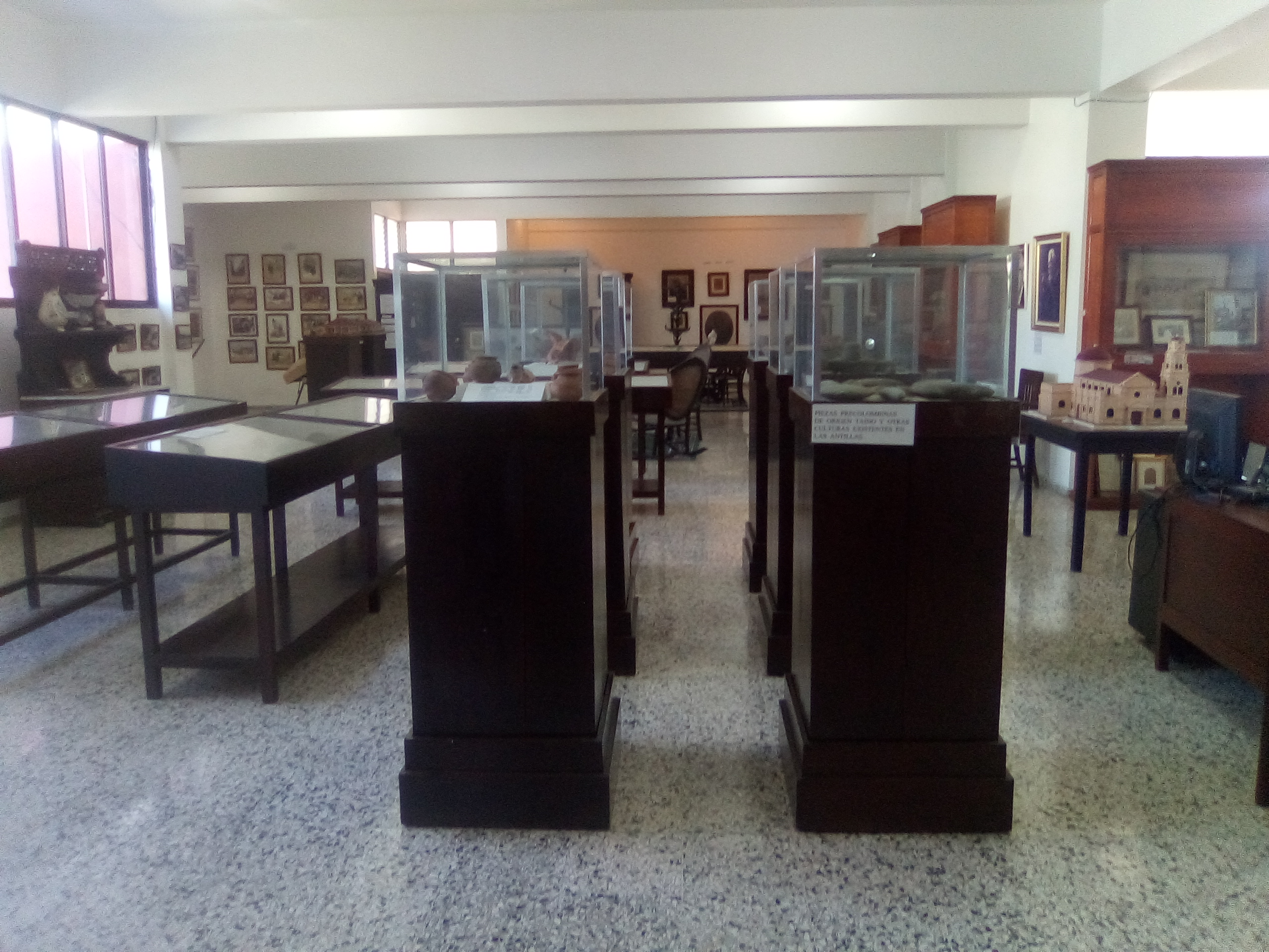 Museum Historical Baní